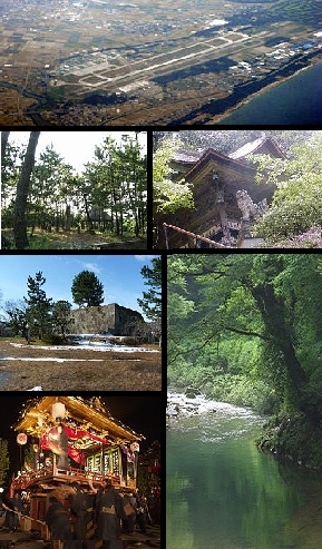 Komatsu montage